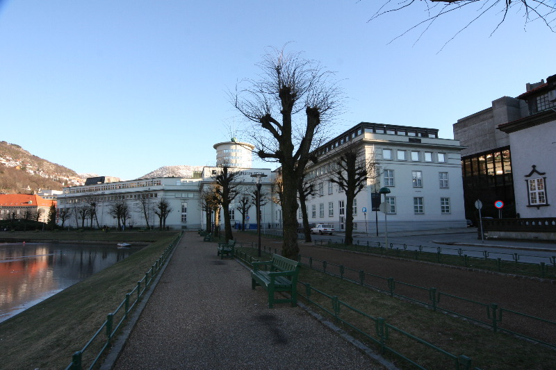 Lysverket, Kunstmuseum, Bergen (Norway)